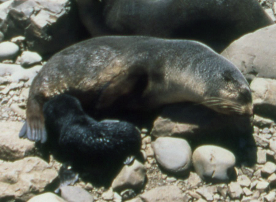 This picture was taken in Possession Island (Crozet Archipelago) at the site named "the elephant seal pool". This picture was taken in december 2002 by Nicolas Servera. On this picture, you can see a female and her pup. The pup is suckling. The female is resting on the beach.